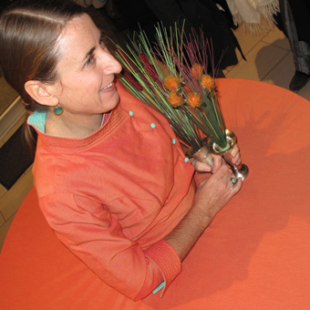 Dress-table, by Maria Ezcurra